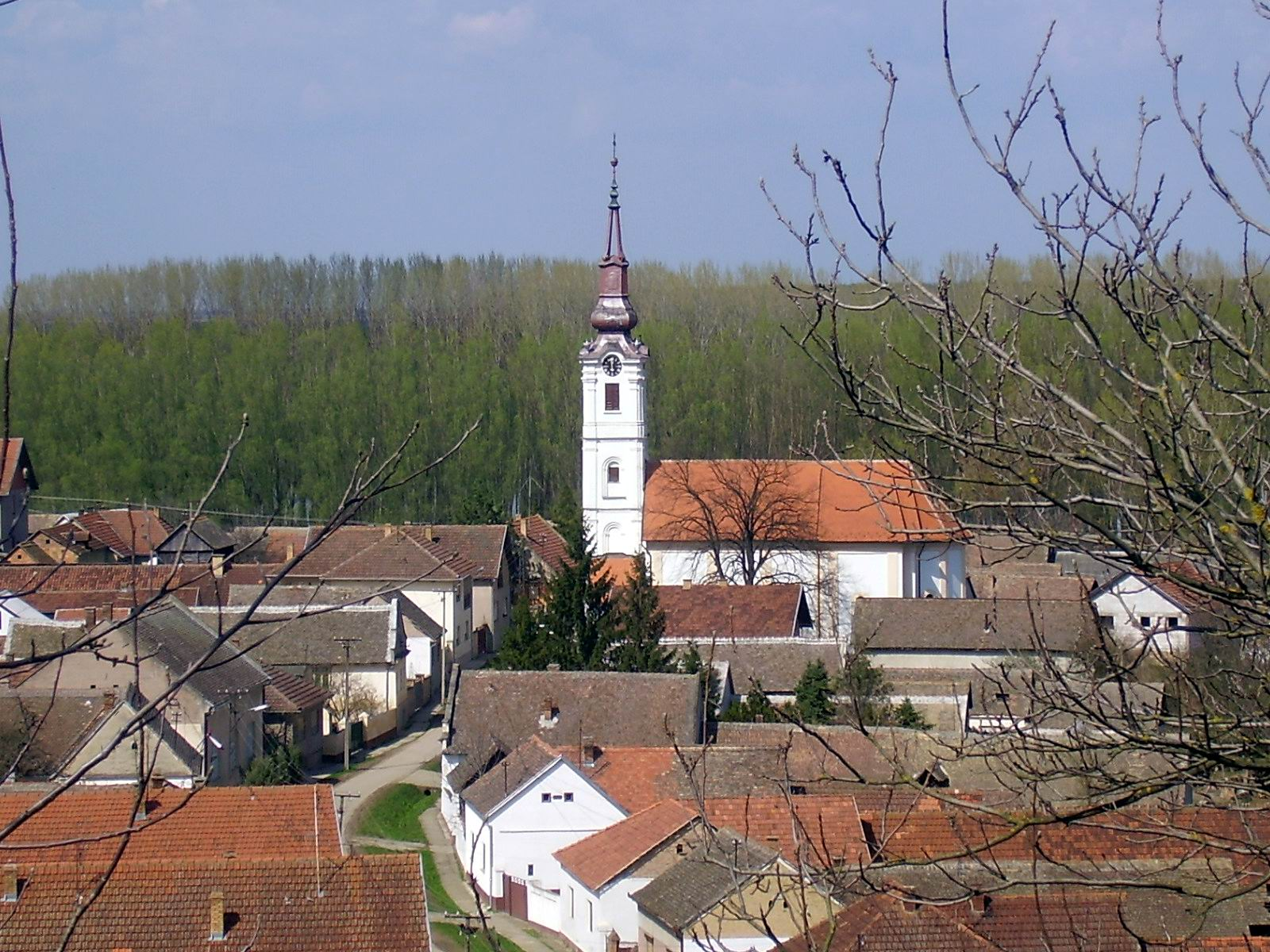 Neštin, near Bačka Palanka, Vojvodina, Serbia